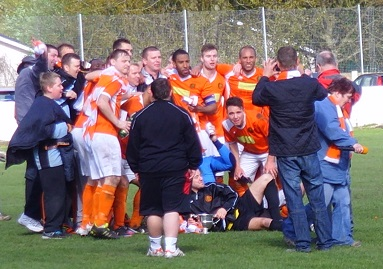 An image of the team after they beat Haughmond 4-1 to gain promotion as runners up in 2012-13 at Queen Street Bilston. Saturday 11th May 2013.